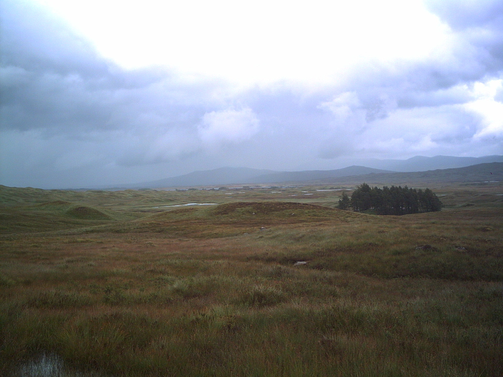 Rannoch Moor